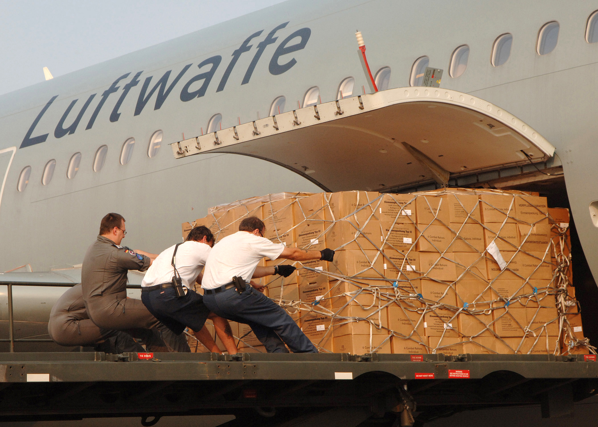 Pensacola, Fla. (Sept. 4, 2005) – Crew members of a German Luftwaffe Airbus A310 MRTT aircraft offload Meals Ready-to-Eat (MRE) on board Naval Air Station Pensacola, Fla., in support of Hurricane Katrina relief efforts. Donated by the German Government, 30-tons of MREs were distributed trough the Gulf Coast region to feed the victims of Hurricane Katrina.